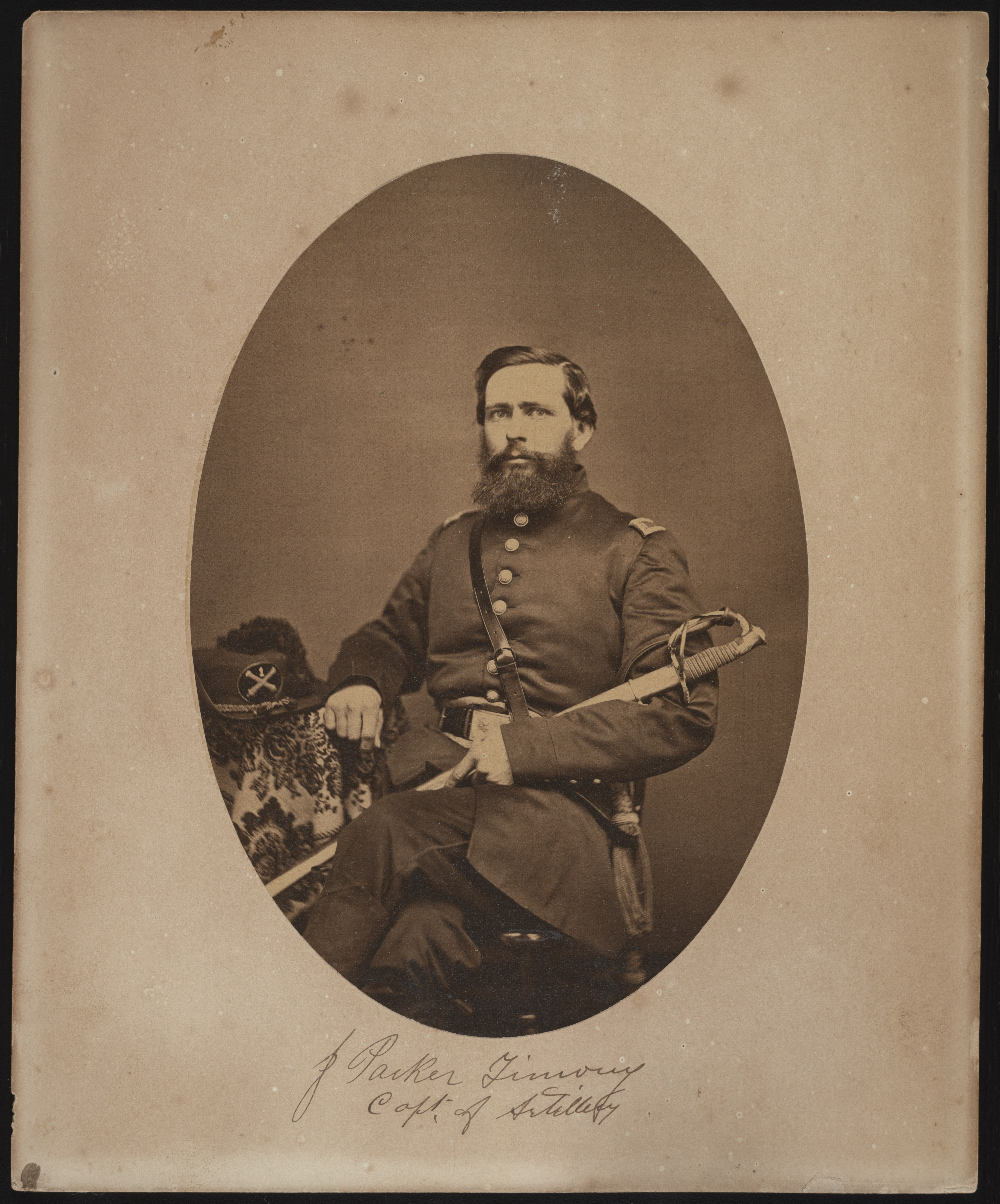 Title: Captain James Parker Timony of Co. D, 2nd Illinois Light Artillery Regiment, seated in uniform with sword Abstract/medium: 1 photograph : albumen print ; oval sheet 19 x 13 cm, mount 25 x 20 cm.